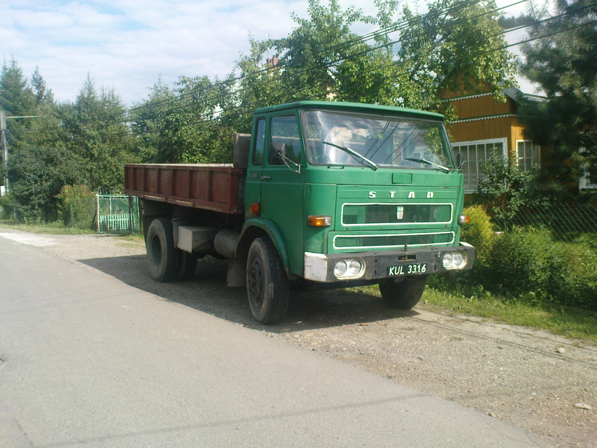 Star 200